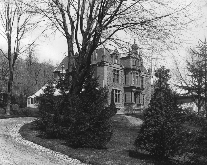 Photograph W.W. Ogilvie's house "Rosemount", McGregor Street, Montreal, QC, 1894 Wm. Notman & Son 1894, 19th century Silver salts on glass - Gelatin silver process 20 x 25 cm Purchase from Associated Screen News Ltd. II-105754 © McCord Museum